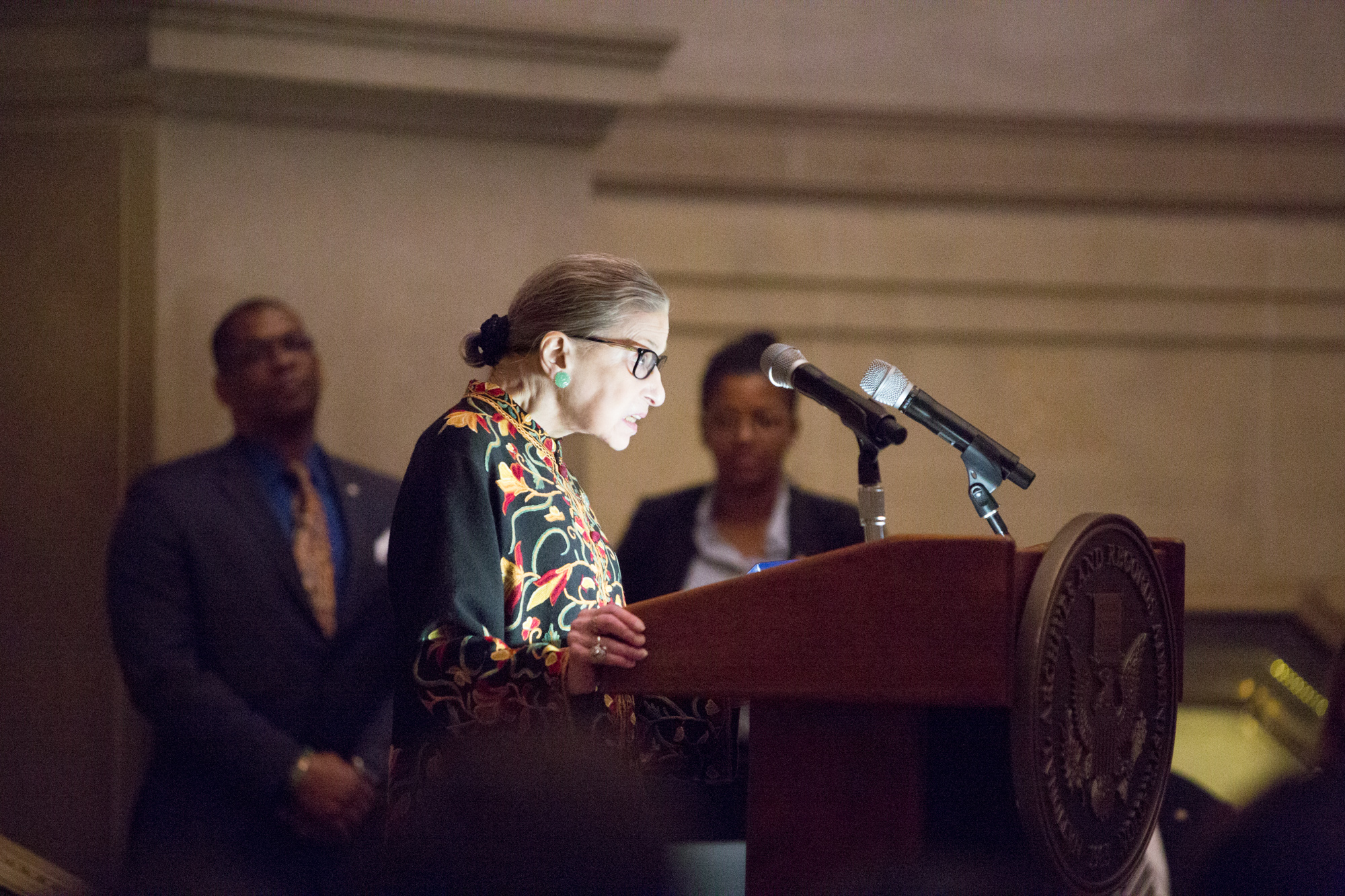 Bill of Rights Day Naturalization Ceremony at the National Archives in Washington, DC, on December 14, 2018. NARA photo by Jeff Reed.